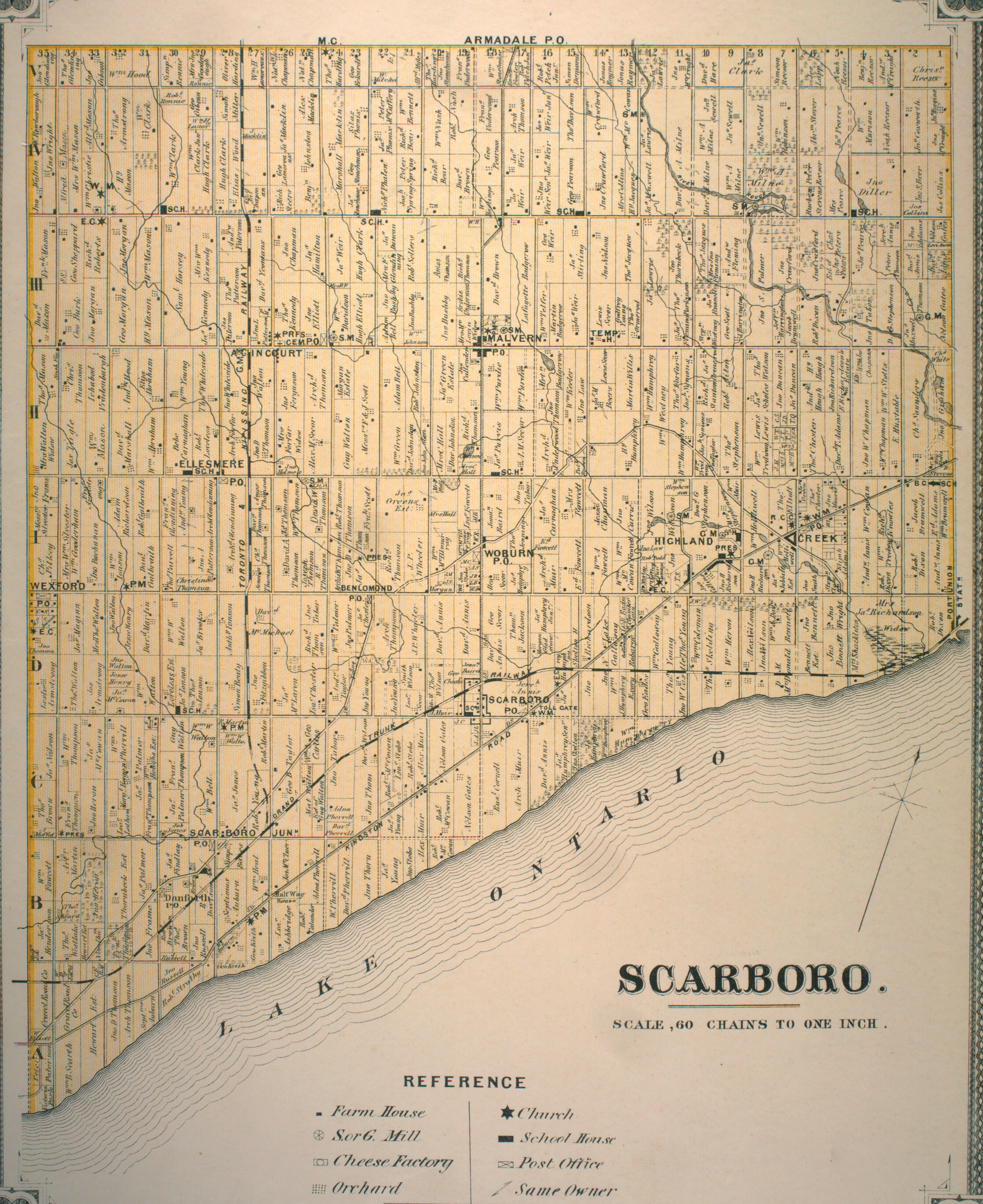 A survey map of Scarborough, Ontario from the 1880s